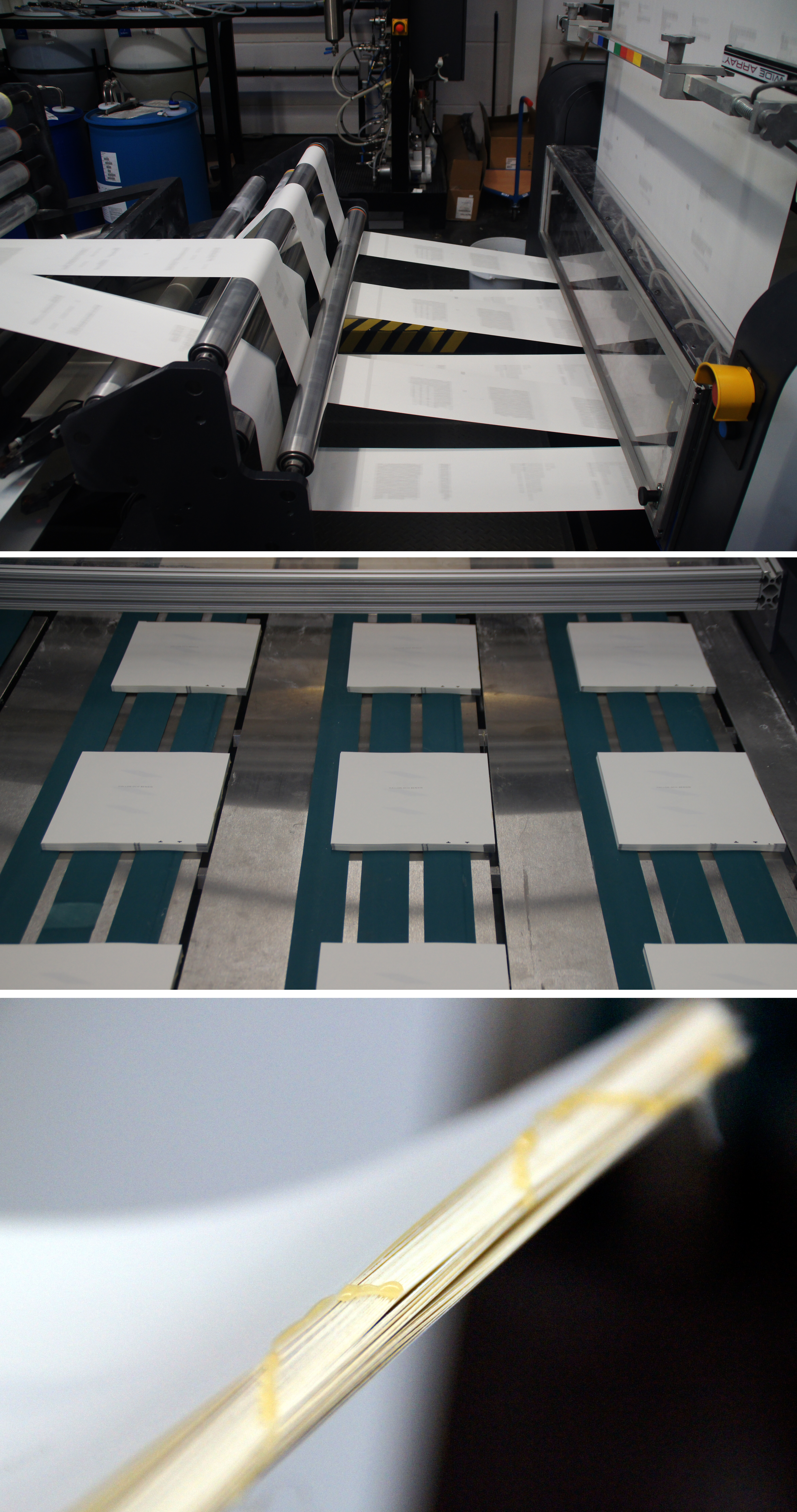 Digital book printing on an inkjet web press; above: slitting of printed web; middle: collected pages from cross-cutted ribbons; below: book block stabilized by an auxiliary glue strip for later binding